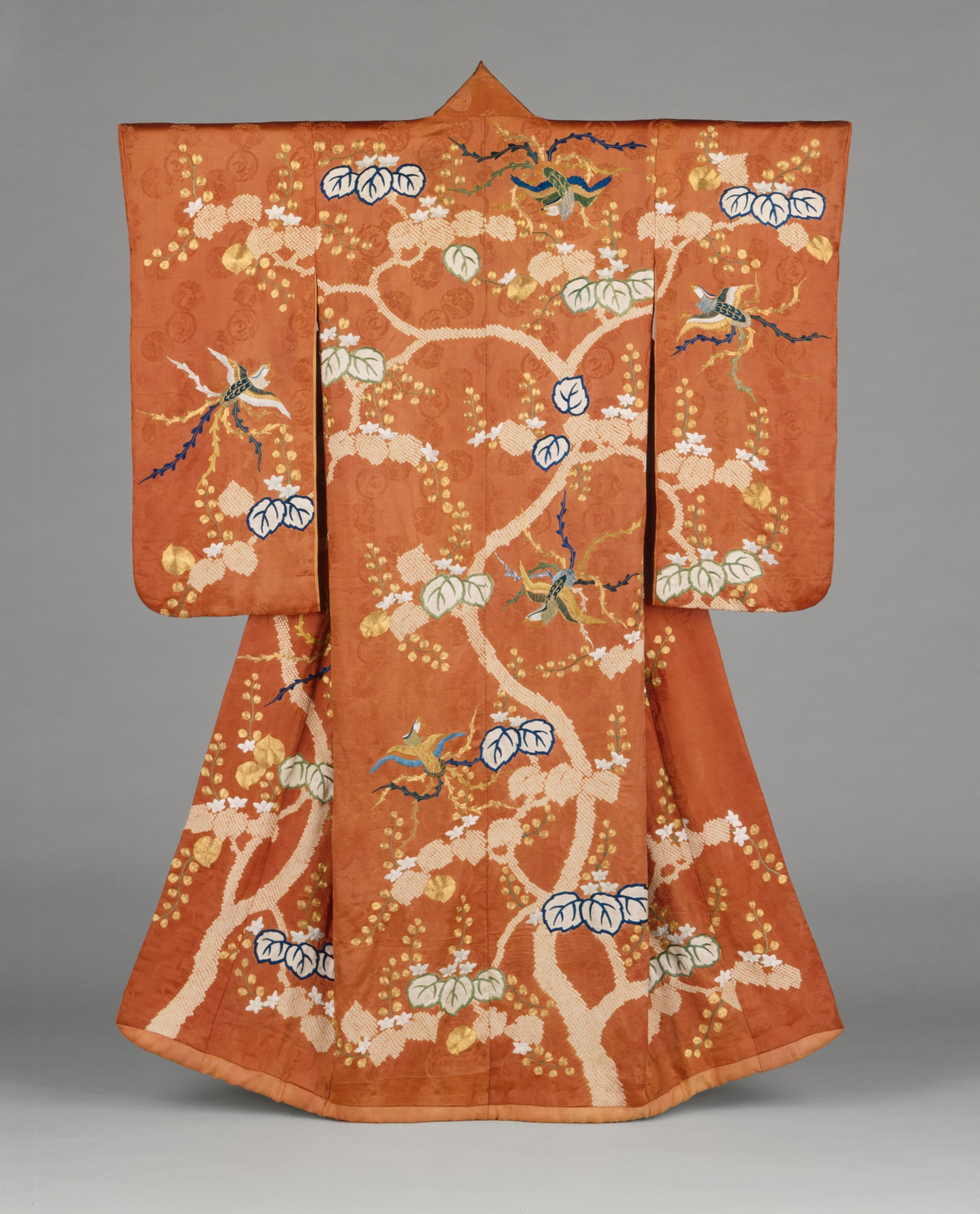 Japan, Edo period (1615-1868), late 18th-early 19th century Descriptive: Young Woman's Robe Costumes; principal attire (entire body) Tie-dyeing (boshi and kanoko shibori) and silk and metallic thread embroidery on red-orange figured silk satin (rinzu) Gift of Miss Bella Mabury (M.39.2.6) Costume and Textiles